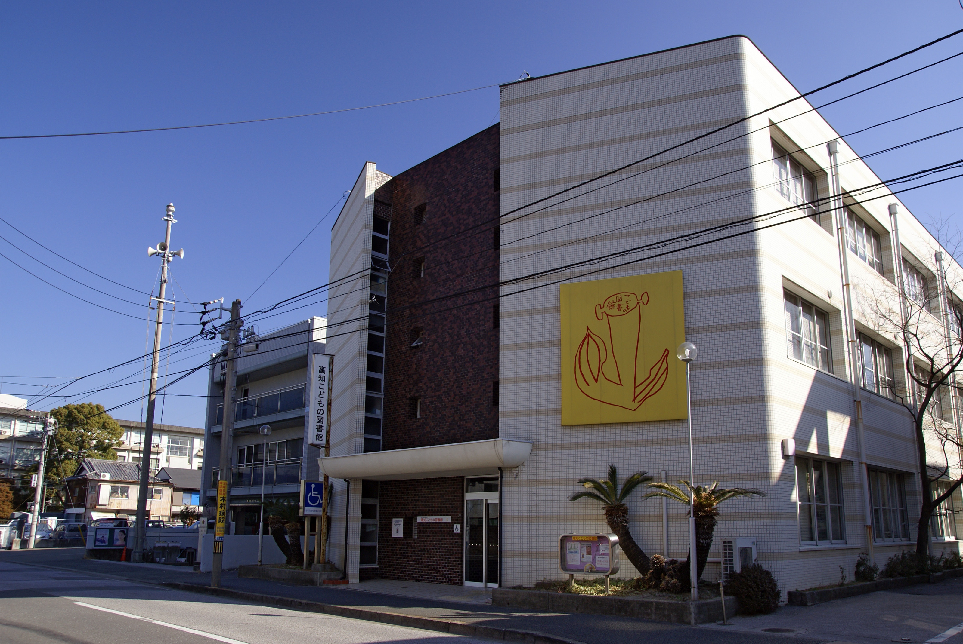 Kochi Children's Library in Kochi, Kochi prefecture, Japan